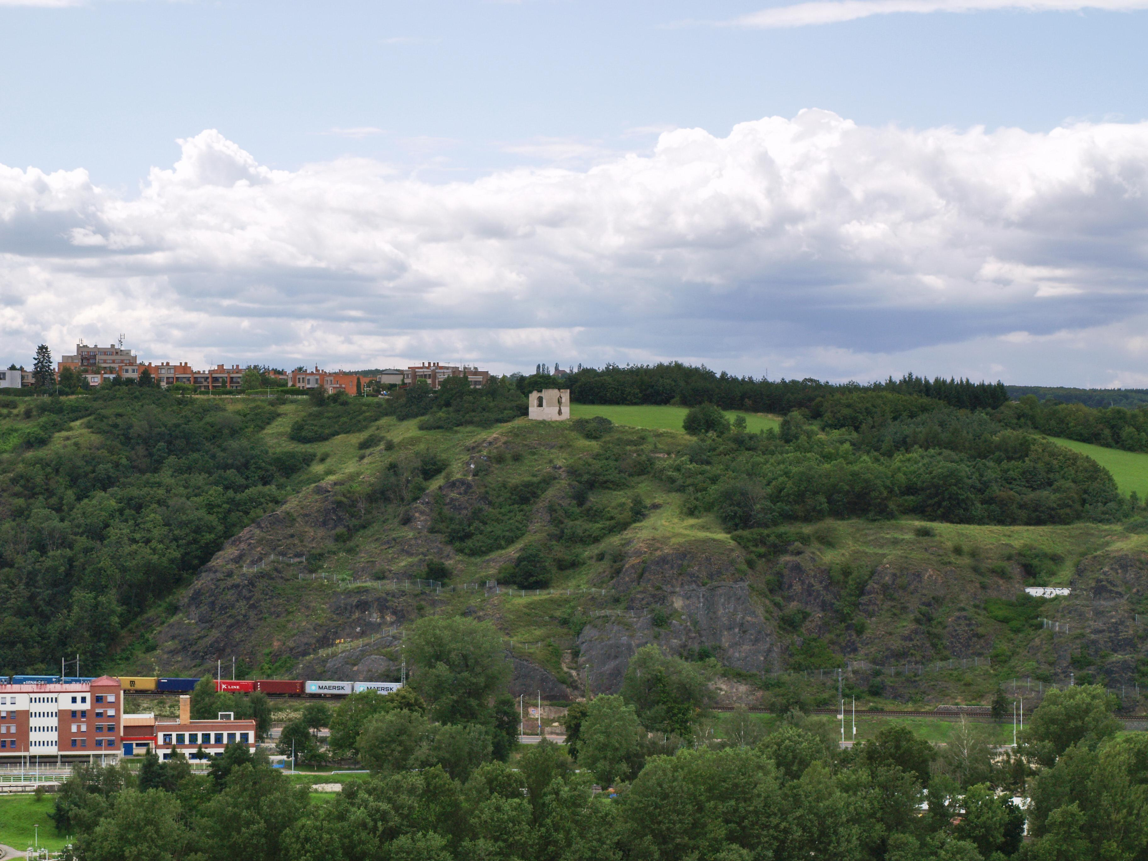 “Baba” ruins in Prague